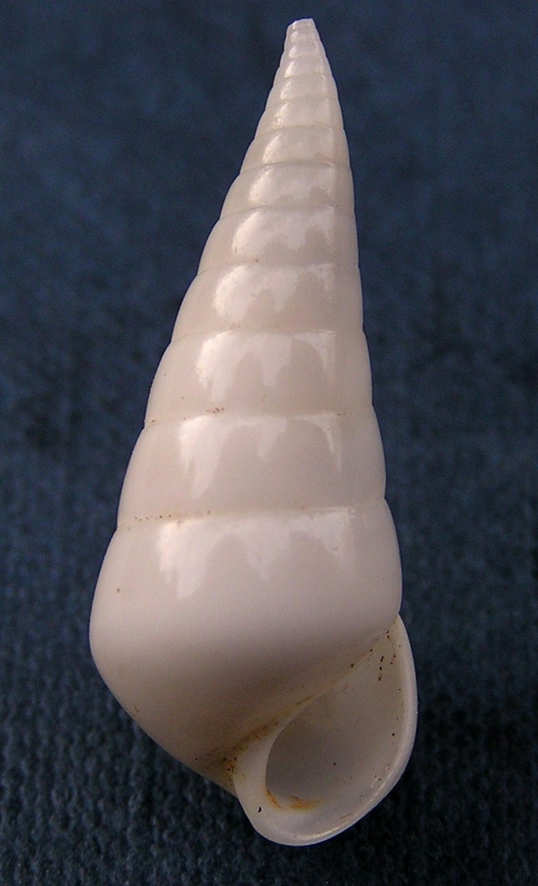 Melanella martinii (A. Adams in Sowerby, 1854), a sea snail from the family Eulimidae; Philippines